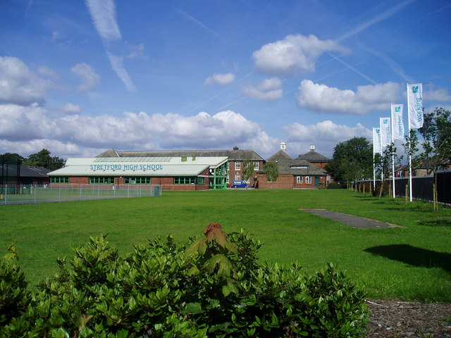 Stretford High School The O.S. map has the abbreviation coll. over the school building. North Trafford College is actually on the opposite side of the road to the right of the flags, slightly north east of Stretford High School.